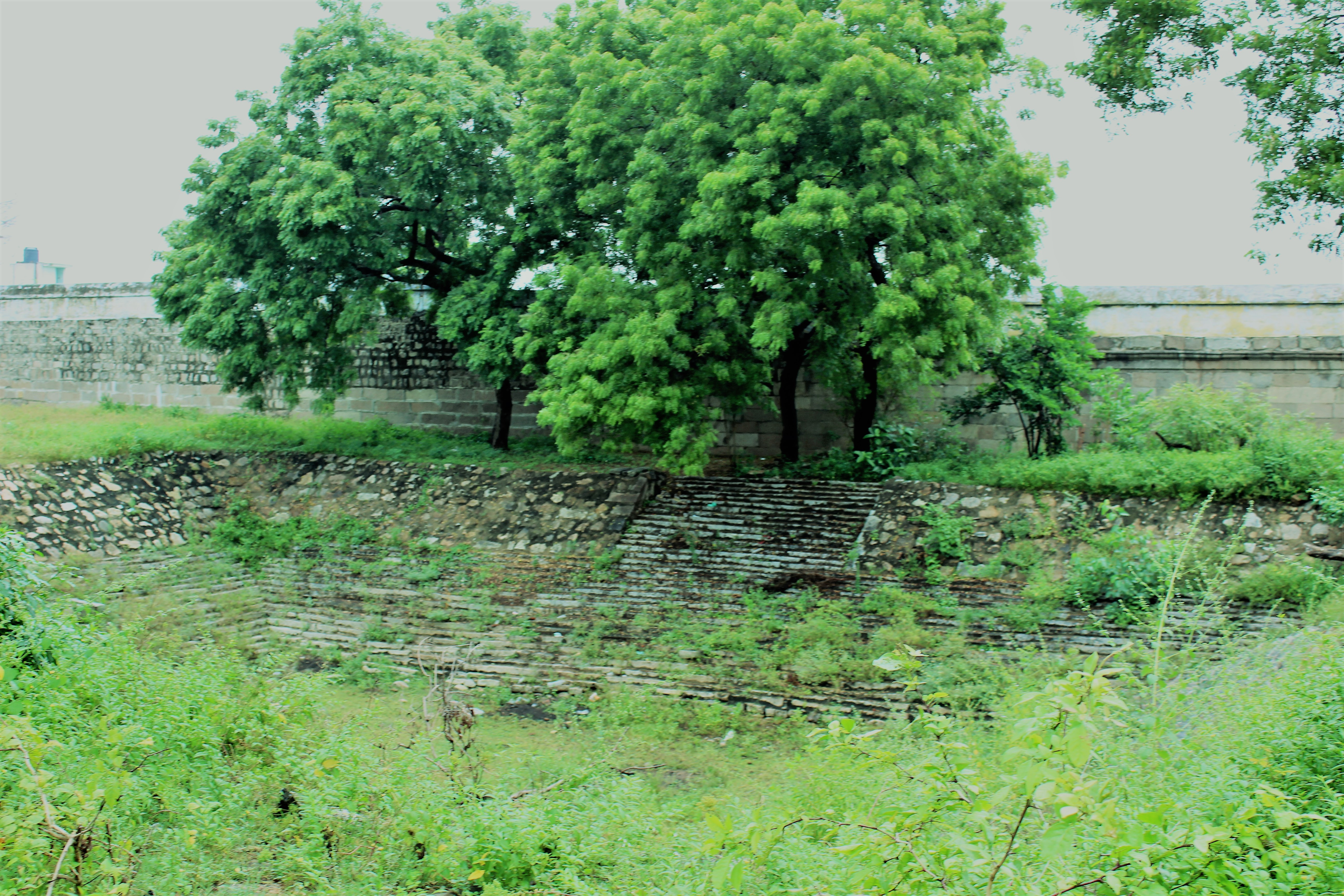 Jalandeeswarar temple, Thakkolam